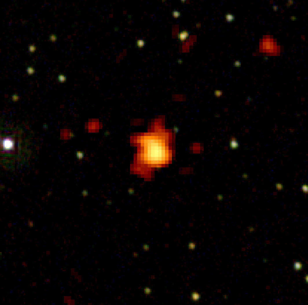 GRB 080916C's X-ray afterglow appears orange and yellow in this view that merges images from Swift's UltraViolet/Optical and X-ray telescopes.